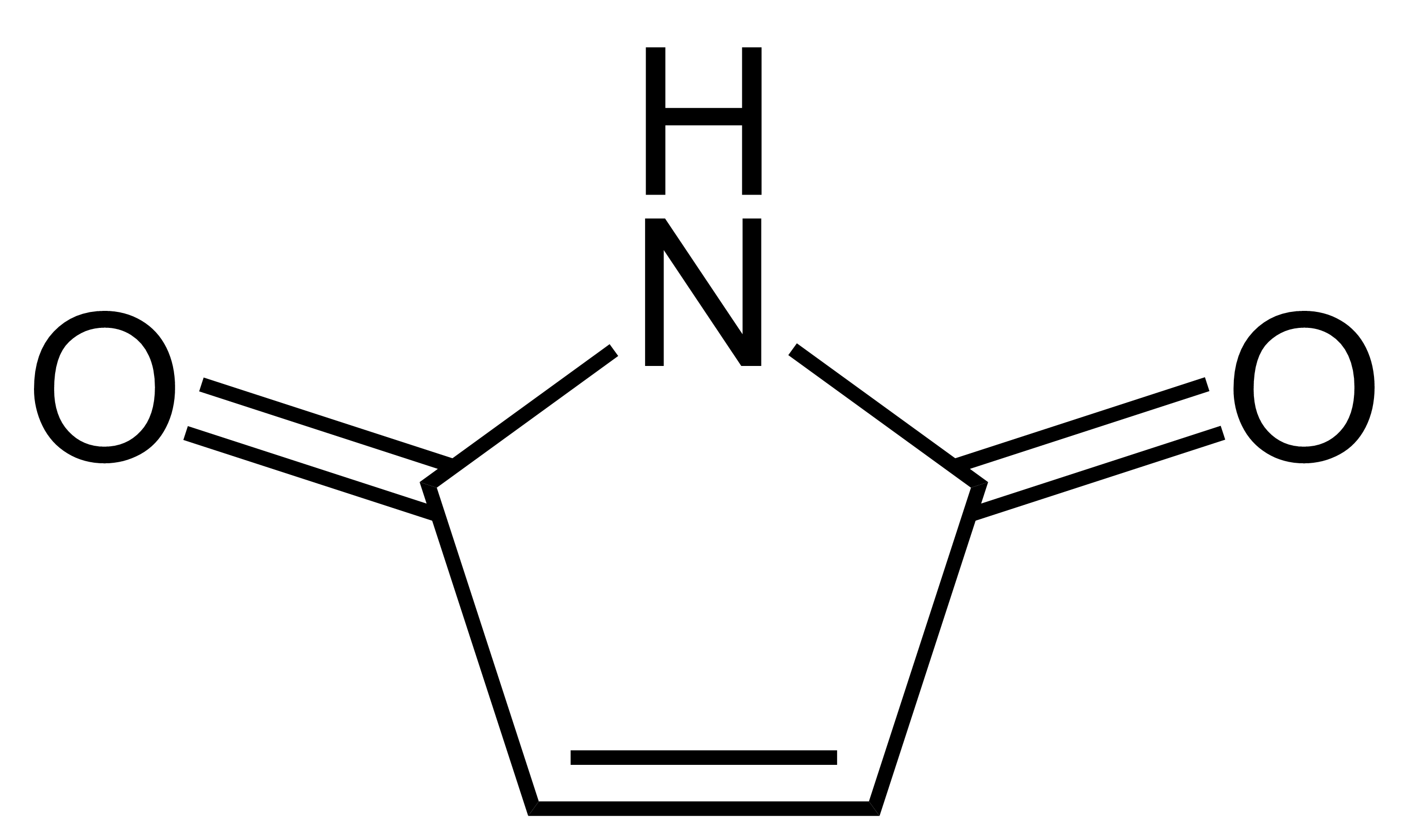 chemical structure of maleimide